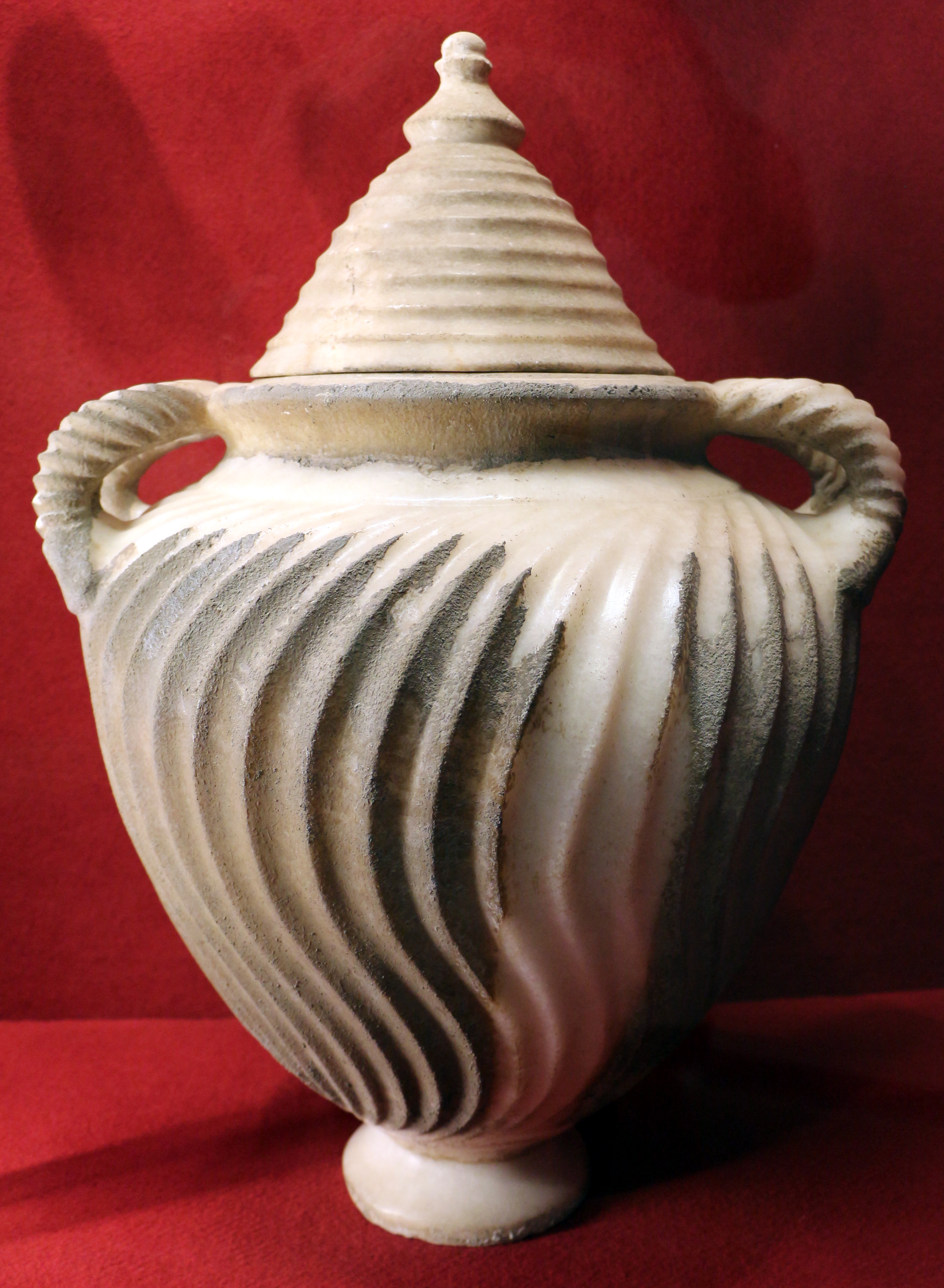 Roman antiquities in the Museo archeologico e d'arte della Maremma